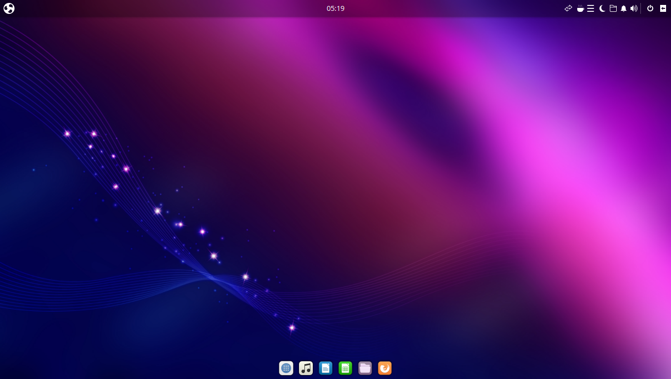 Screenshot of Ubuntu Budgie 19.04